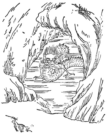 Bailong (白竜) from the Kōshi yawa (甲子夜話)